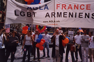 Paris Gay and Lesbian Pride "Marche des Fiertés LGBT" (2002, France) The Association AGLA France (Association des Gays et Lesbiens Arméniens de France) participates in this public event in order to press the government of Armenia for abolishing the anti-gay law in country's penal code.